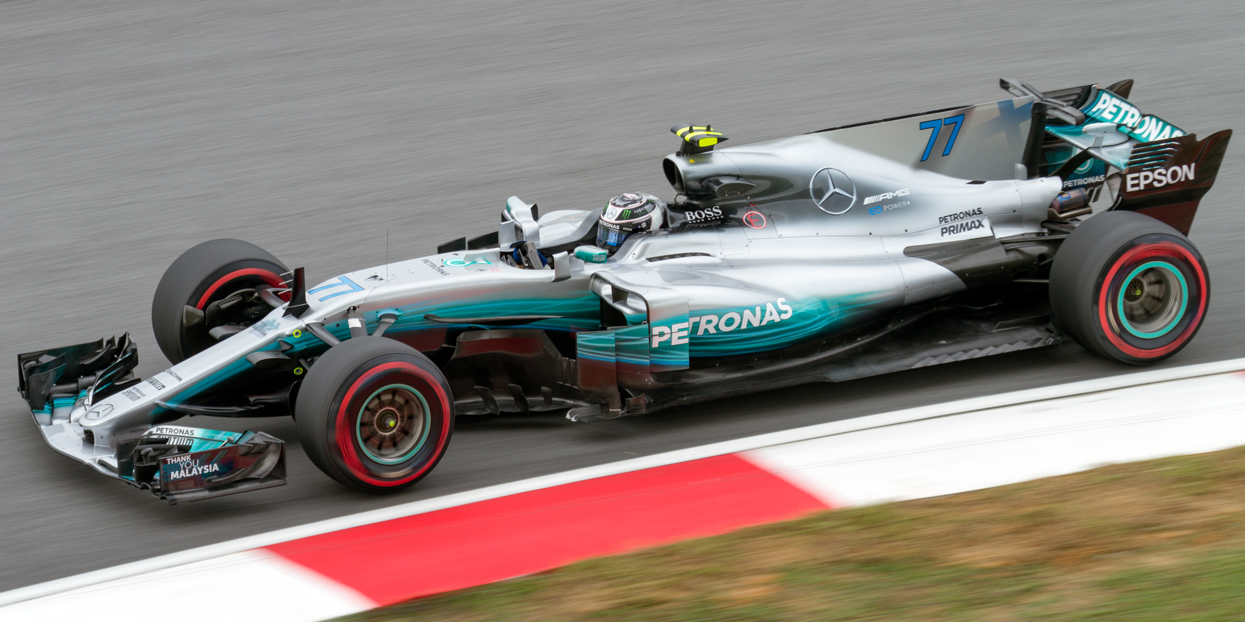 Formula One 2017 Rd.15 Malaysian GP: Valtteri Bottas (Mercedes)